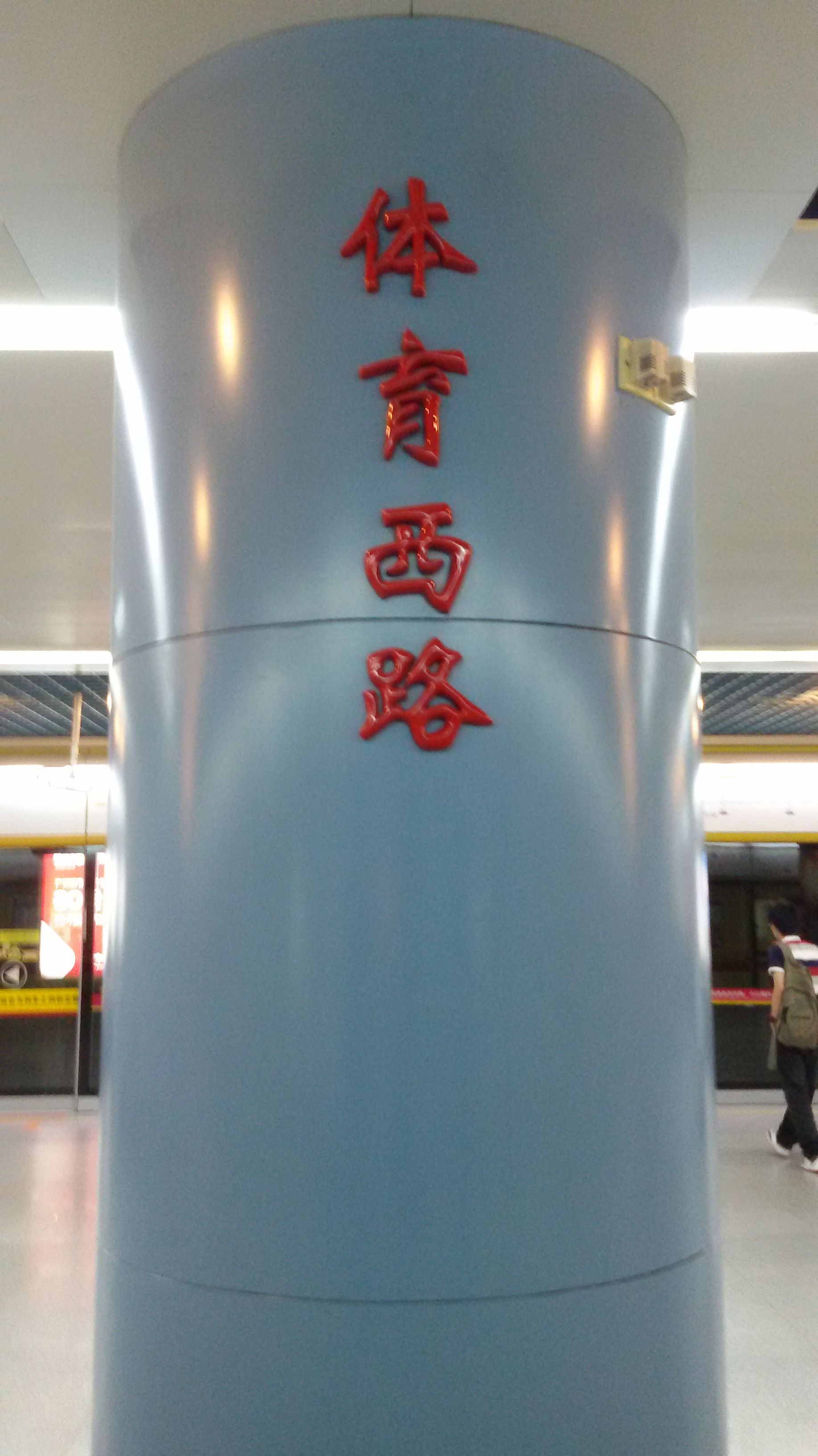 WORD on PILLAR for Tiyu Xilu Station at Line 1, Guangzhou Metro. 粵語: 體育西路站嘅1號綫入面嘅柱上邊啲字